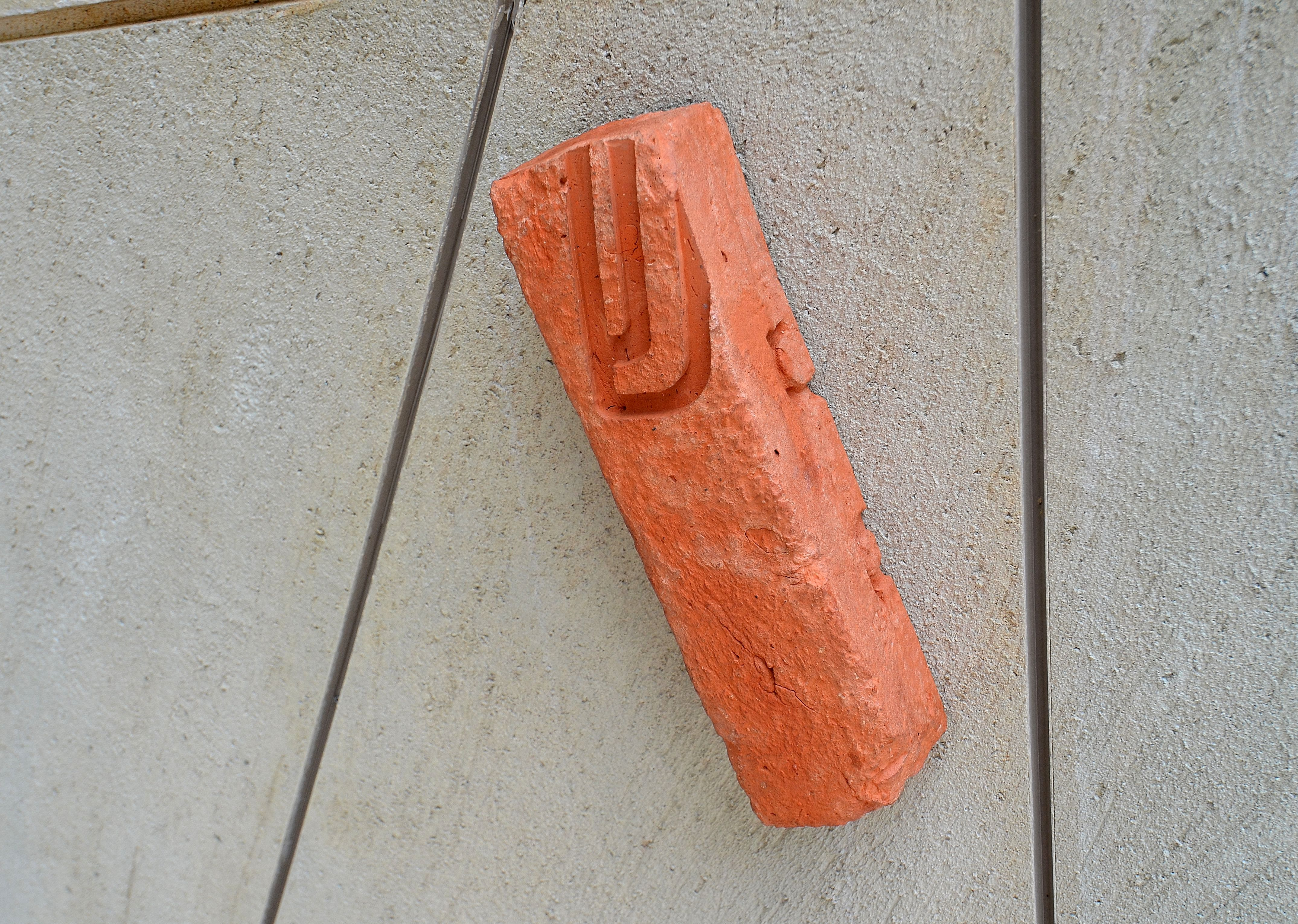 Mezuzah near the entrance to the Museum of the History of Polish Jews in Warsaw. Designed by Maciej and Andrzej Bulanda